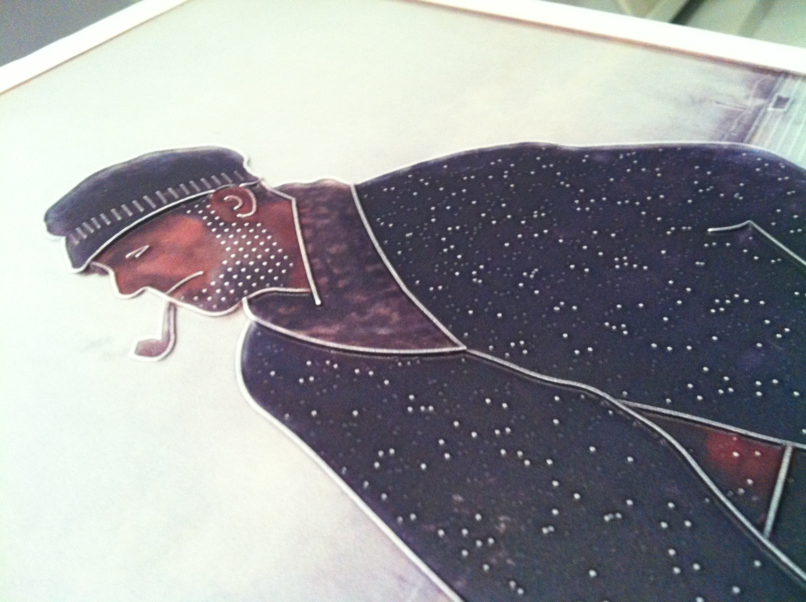 Special exhibit oriented to blind people at Museu Víctor Balaguer